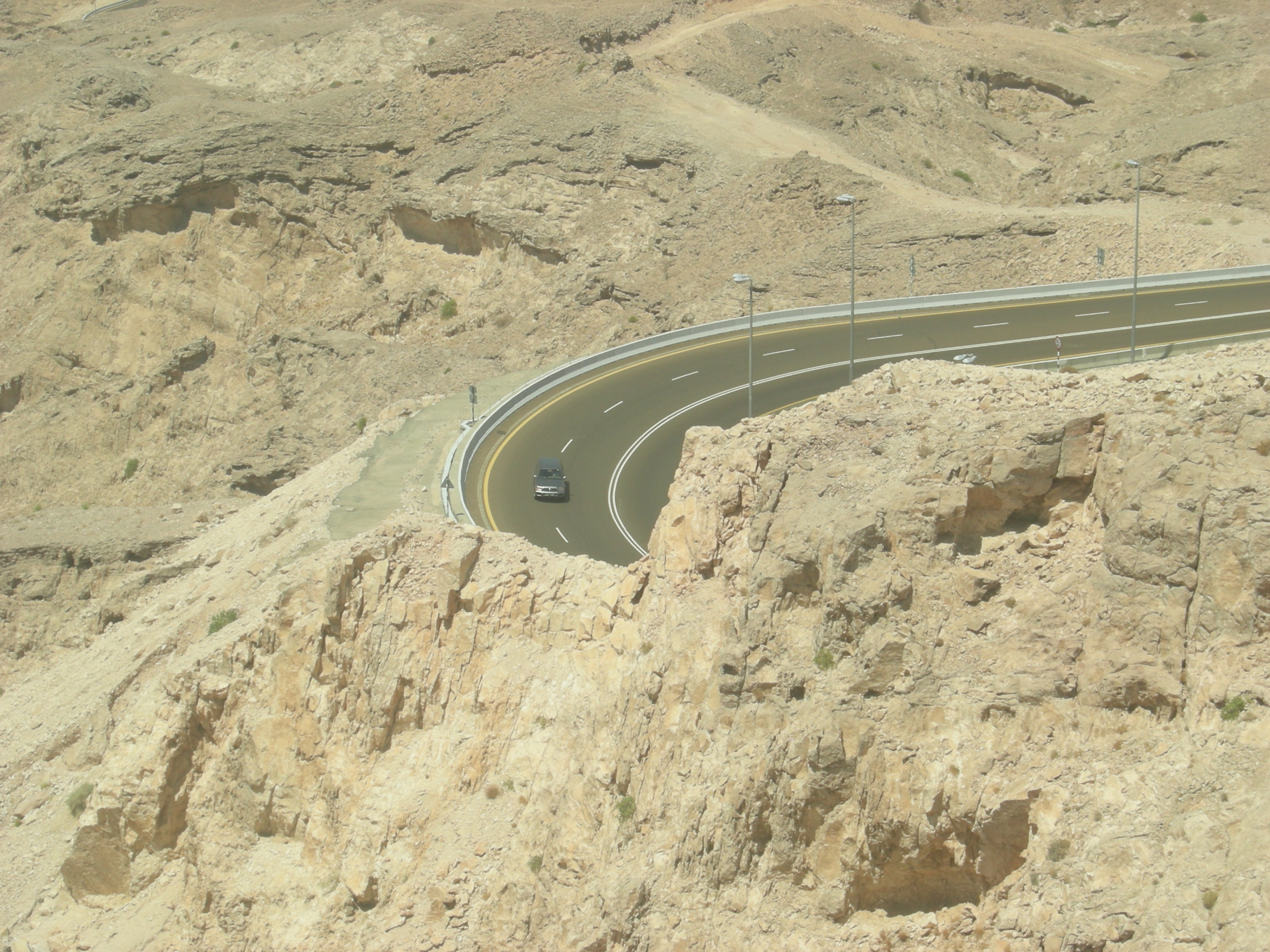 I clicked this photograph on when we visited Jebel Hafeed. We took this photo.